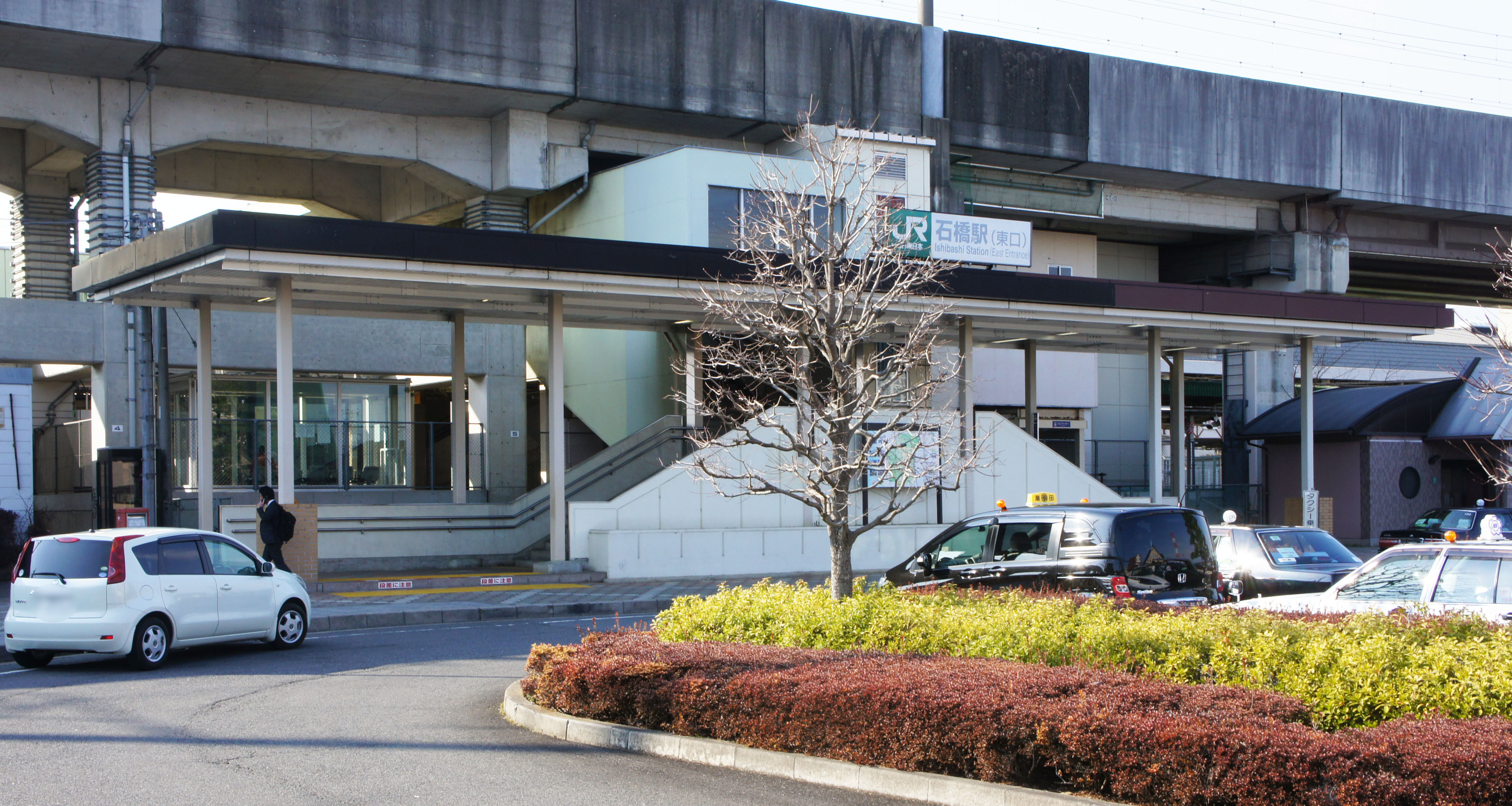 East Exit of JR Tohoku-Main-Line (Utsunomiya-Line) Ishibashi Station Sony NEX-3